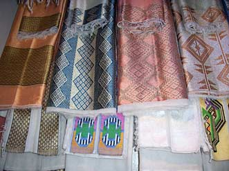 Photographer: Lynn DT Hershberger Photo was taken in a dress shop in Addis Ababa, Ethiopia, in early January of 2005. The fabrics are available to be made into custom-fit dresses.